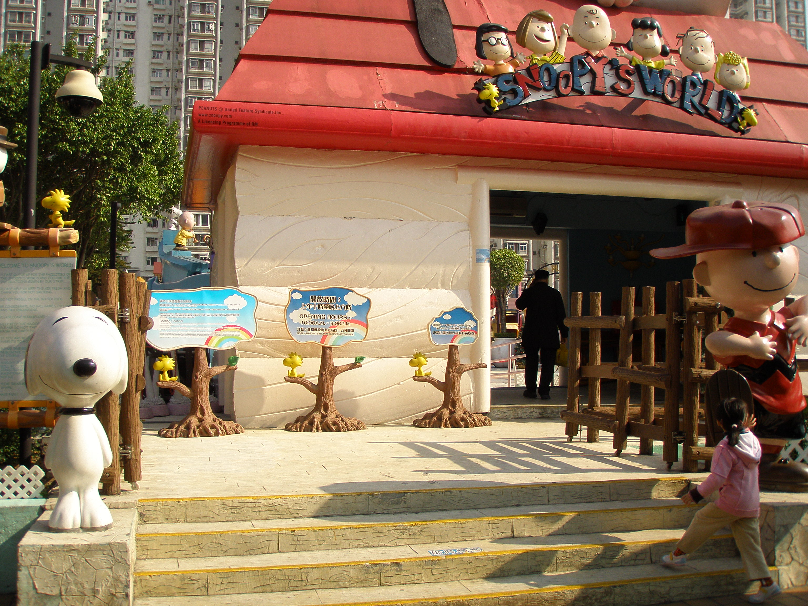 Snoopy's World in Hong Kong